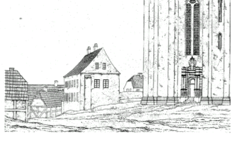 Roskilde Cathedral School, drawing showing a building northwest of the cathedral which was used as the school building from the 14th century.